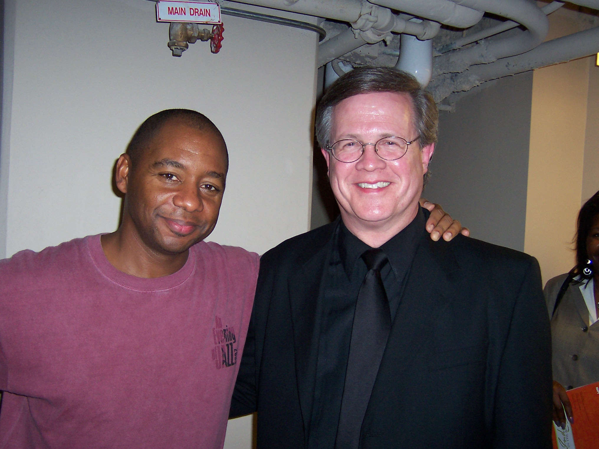 Branford Marsalis and Ray Reach backstage at the Alys Stephens Center